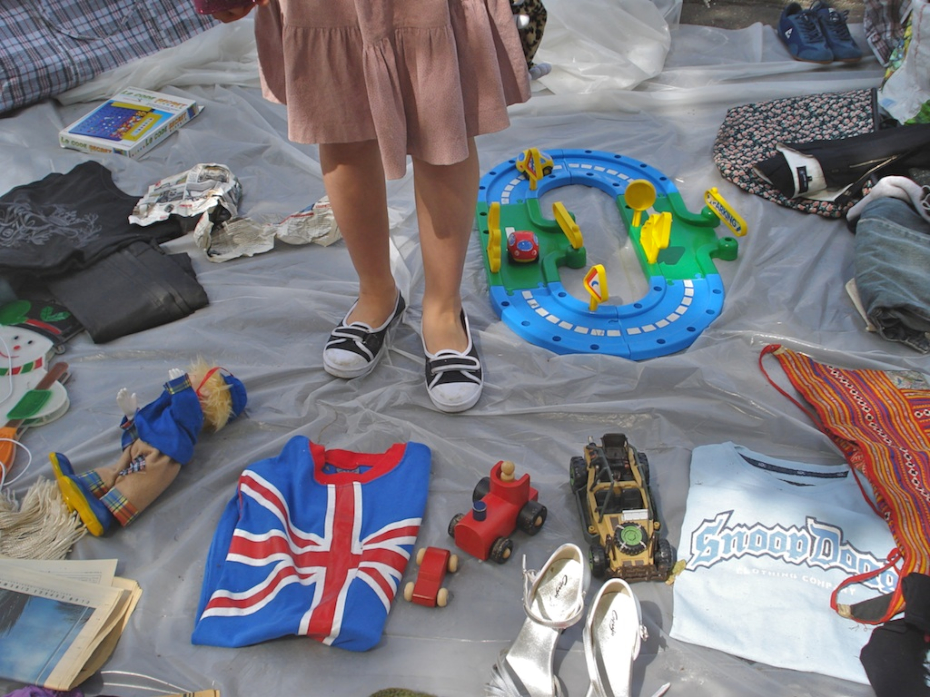 garage sale. Spring cleaning